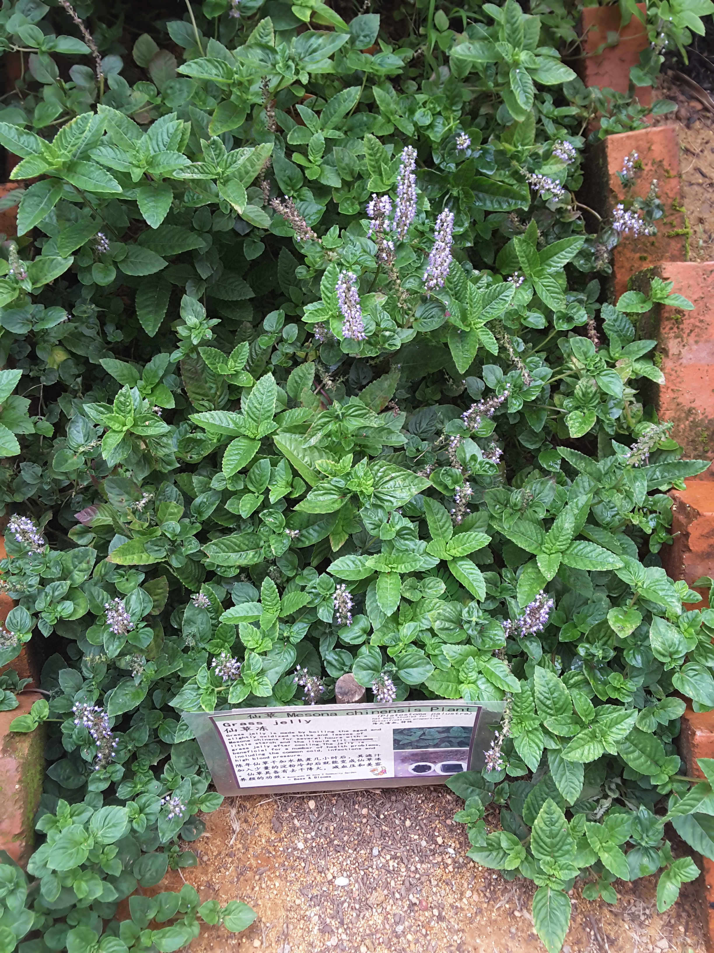 Grass jelly cultivation in Singapore